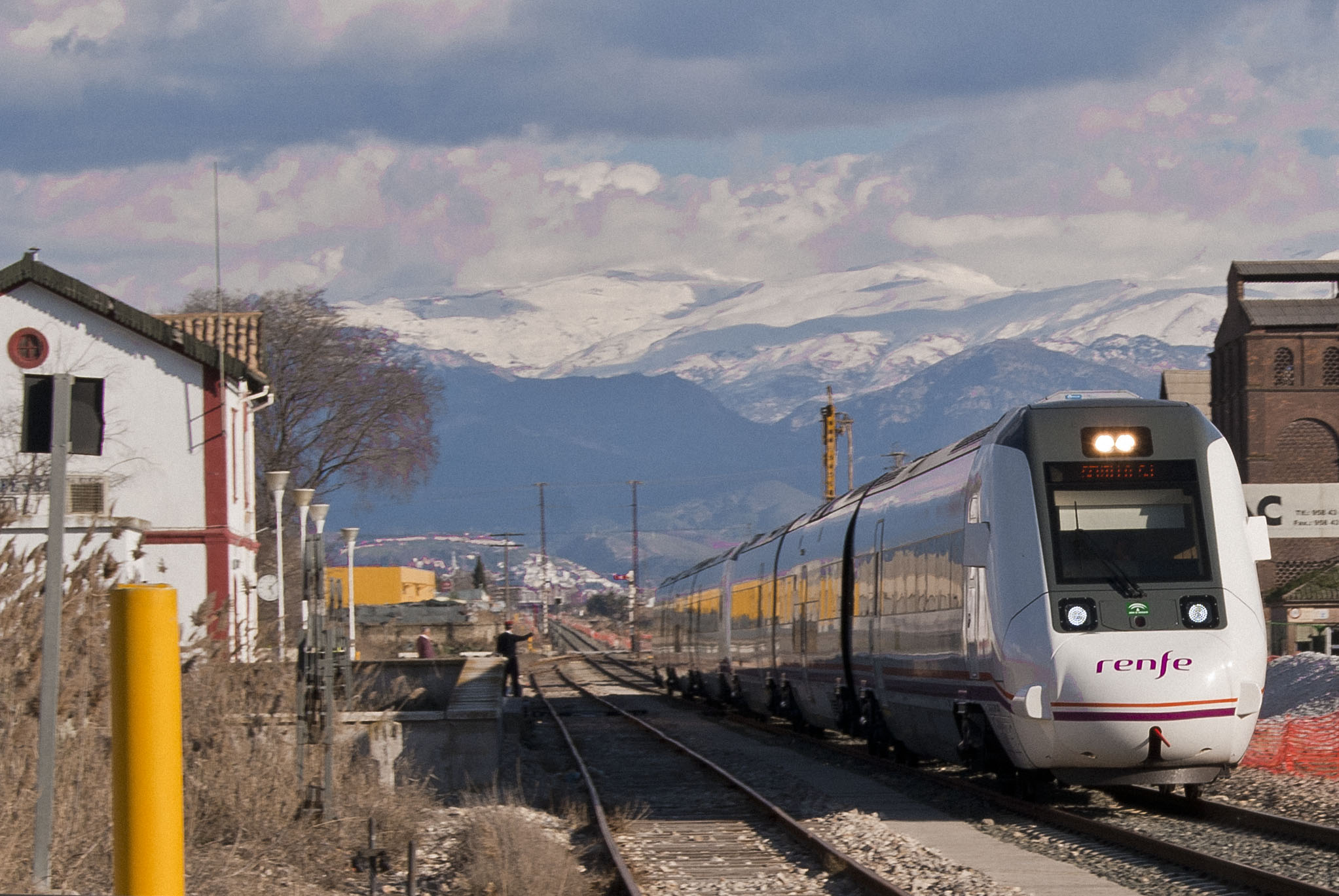 Two Renfe S599 trains coupled in a Media Distancia service between Almería and Sevilla-Santa Justa, just after departing Grenade, passing whithout stop trought Atarfe-Santa Fe station at about 150 km/h.